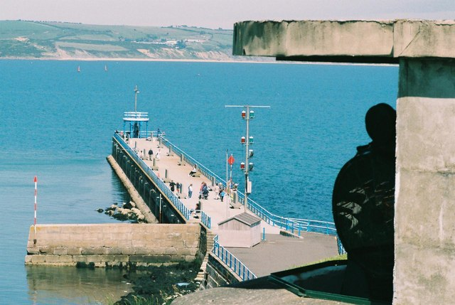 Weymouth: searchlight and South Pier This searchlight holds a commanding position over the harbour entrance at Weymouth.